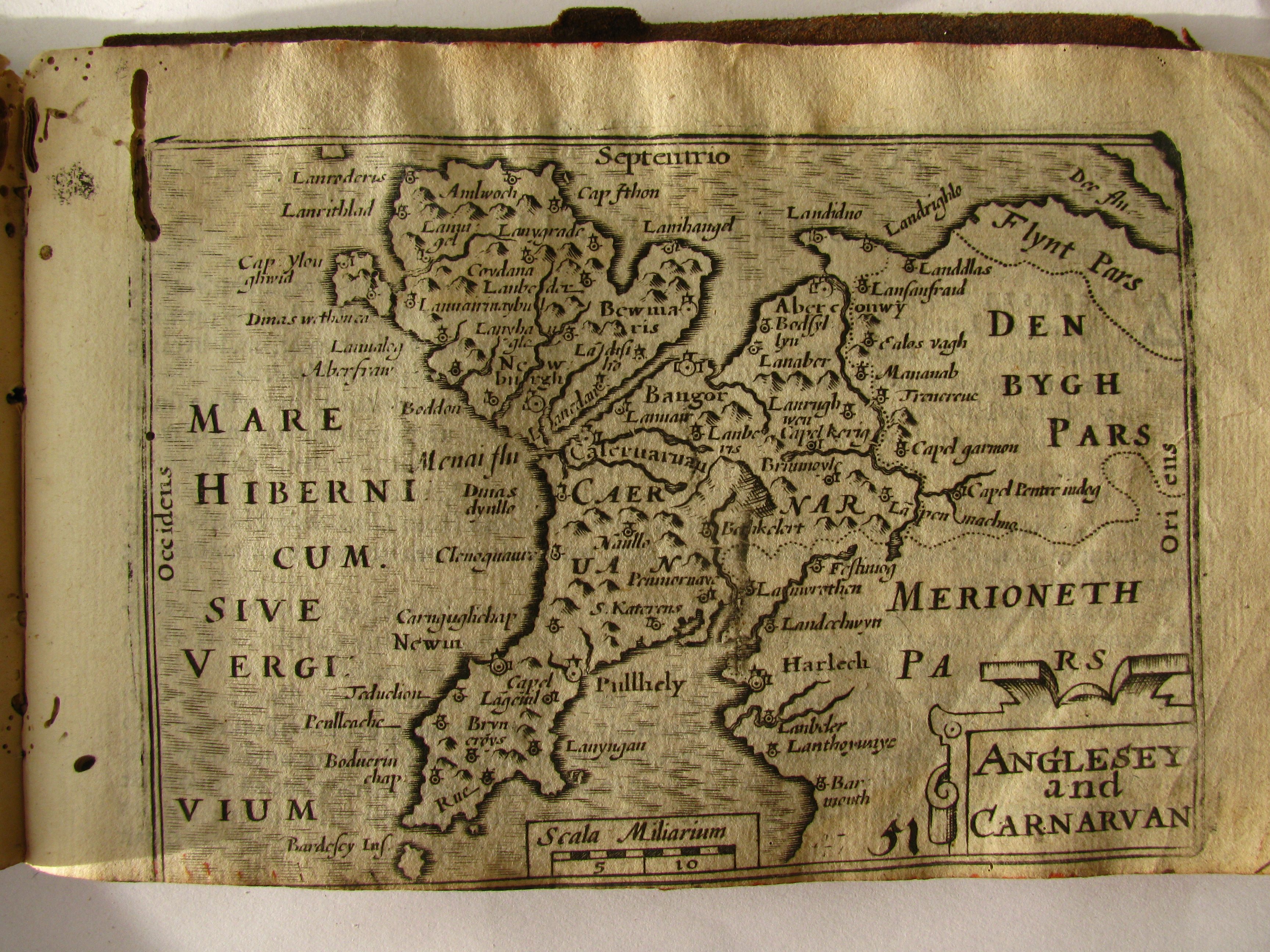 Map from the 1627 "Miniature Speed Atlas" of England Sotland Ireland and Wales, with maps by Pieter van den Keere Photograph taken by me, the atlas owned by me